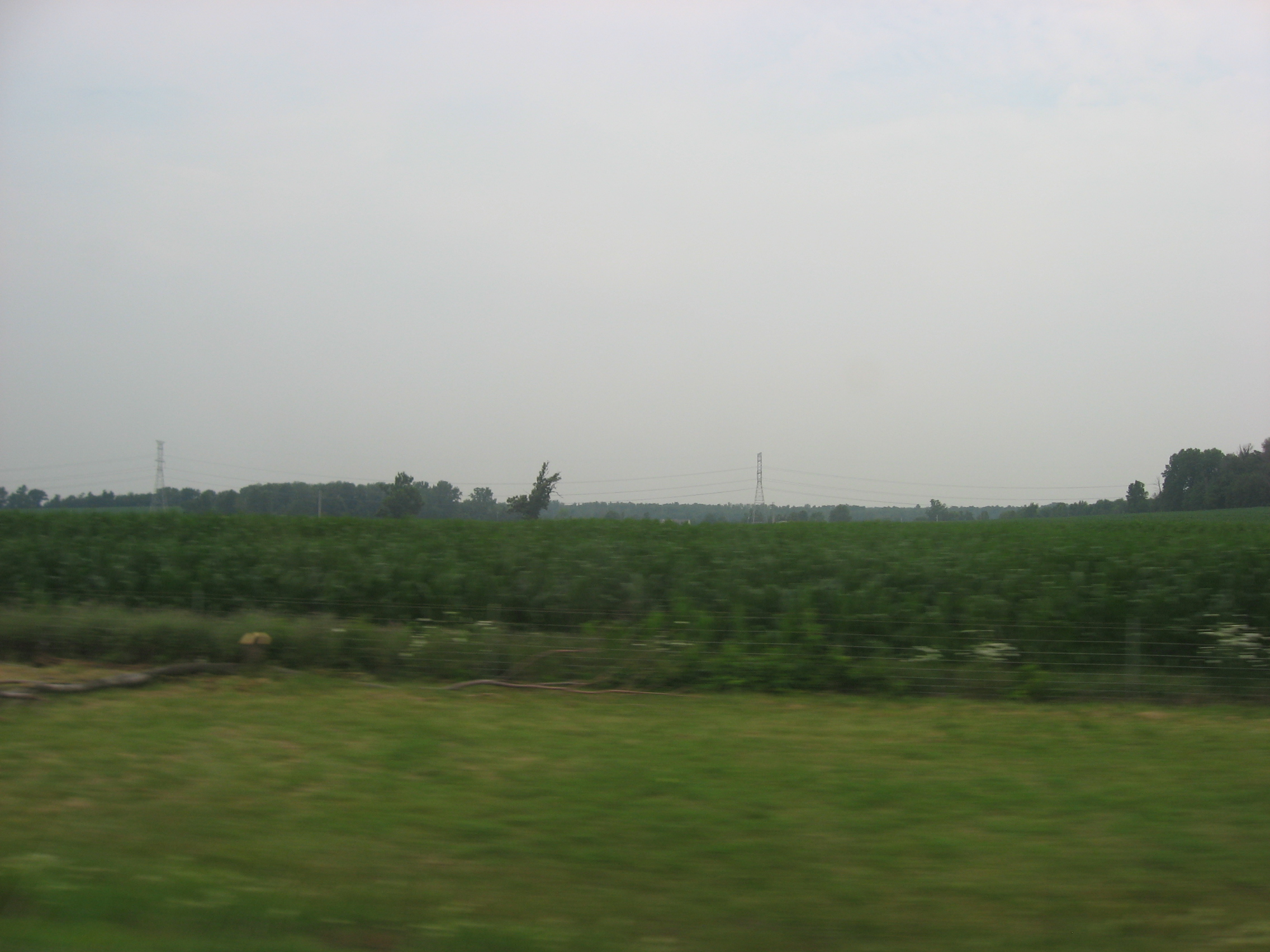 Houses in eastern Florence Township, Erie County, Ohio, United States. Picture taken looking northward from the concurrent Interstates 80/90 (the Ohio Turnpike).